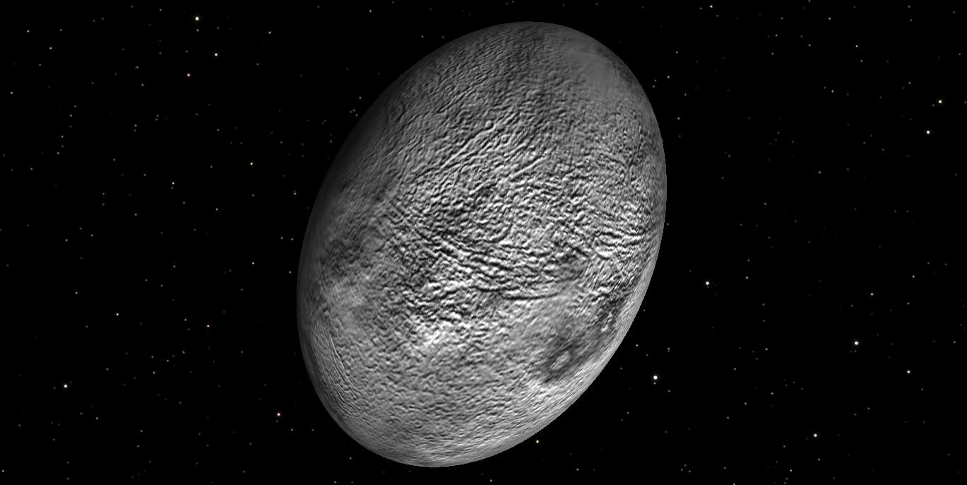 This is the planet Haumea in the Solar System, photographed in Celestia.